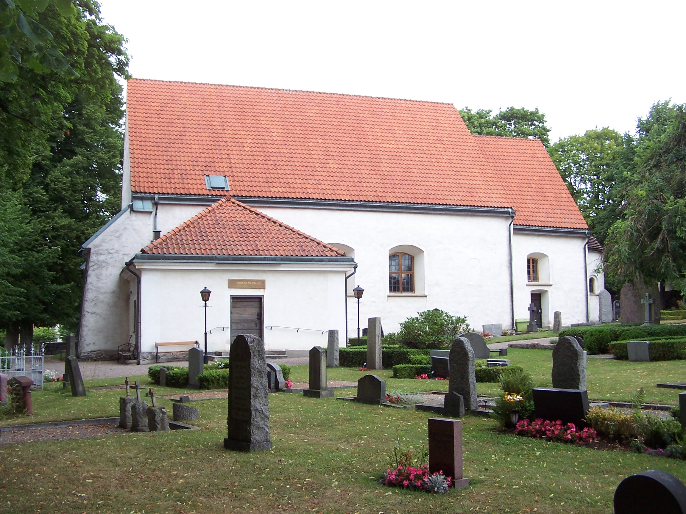 Nättraby church (from southwest)